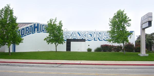 This is the front view of North High School in Torrance.